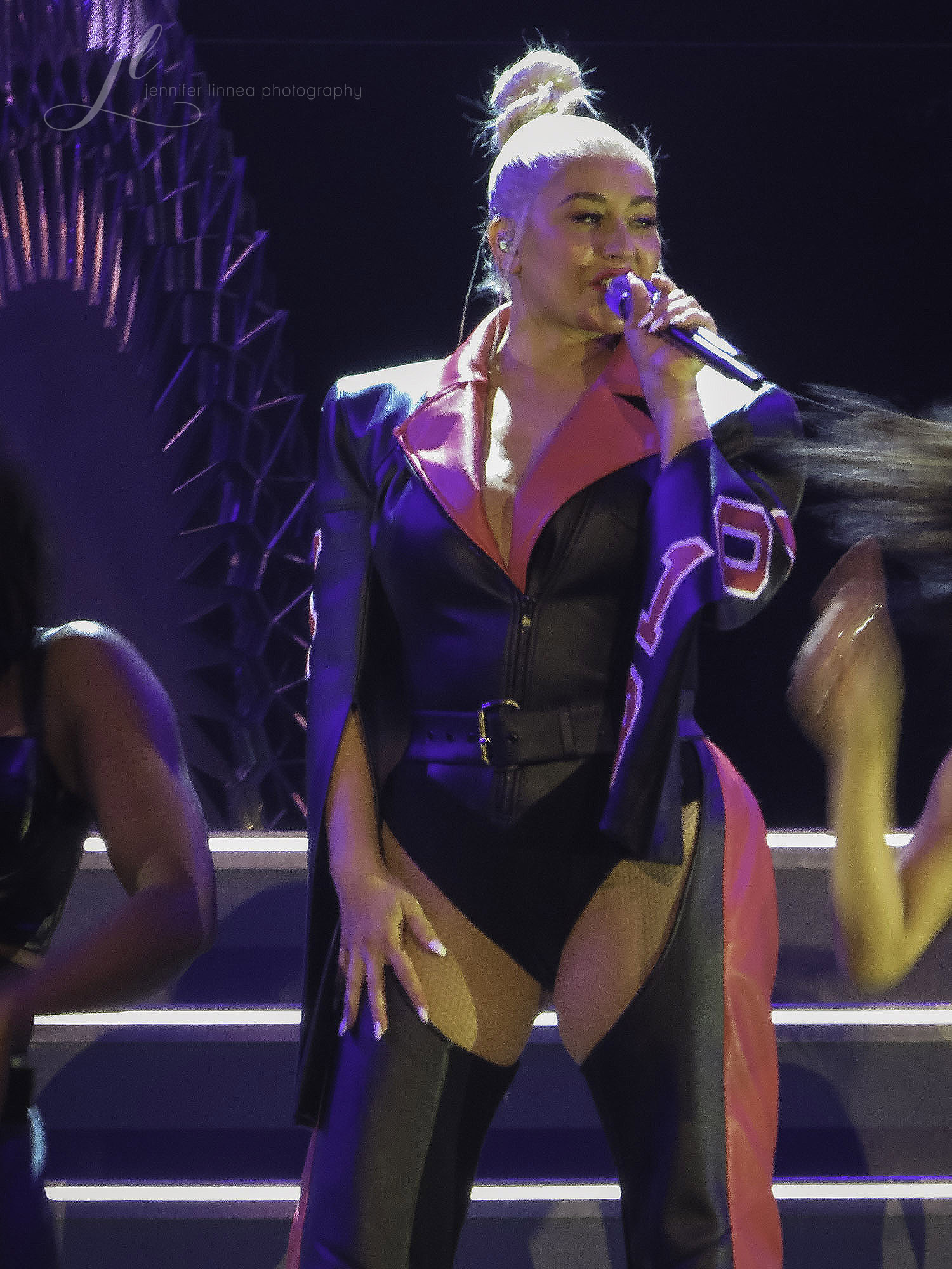 Christina Aguilera performing at the Pepsi Center on October 19, 2018 on her Liberation Tour.